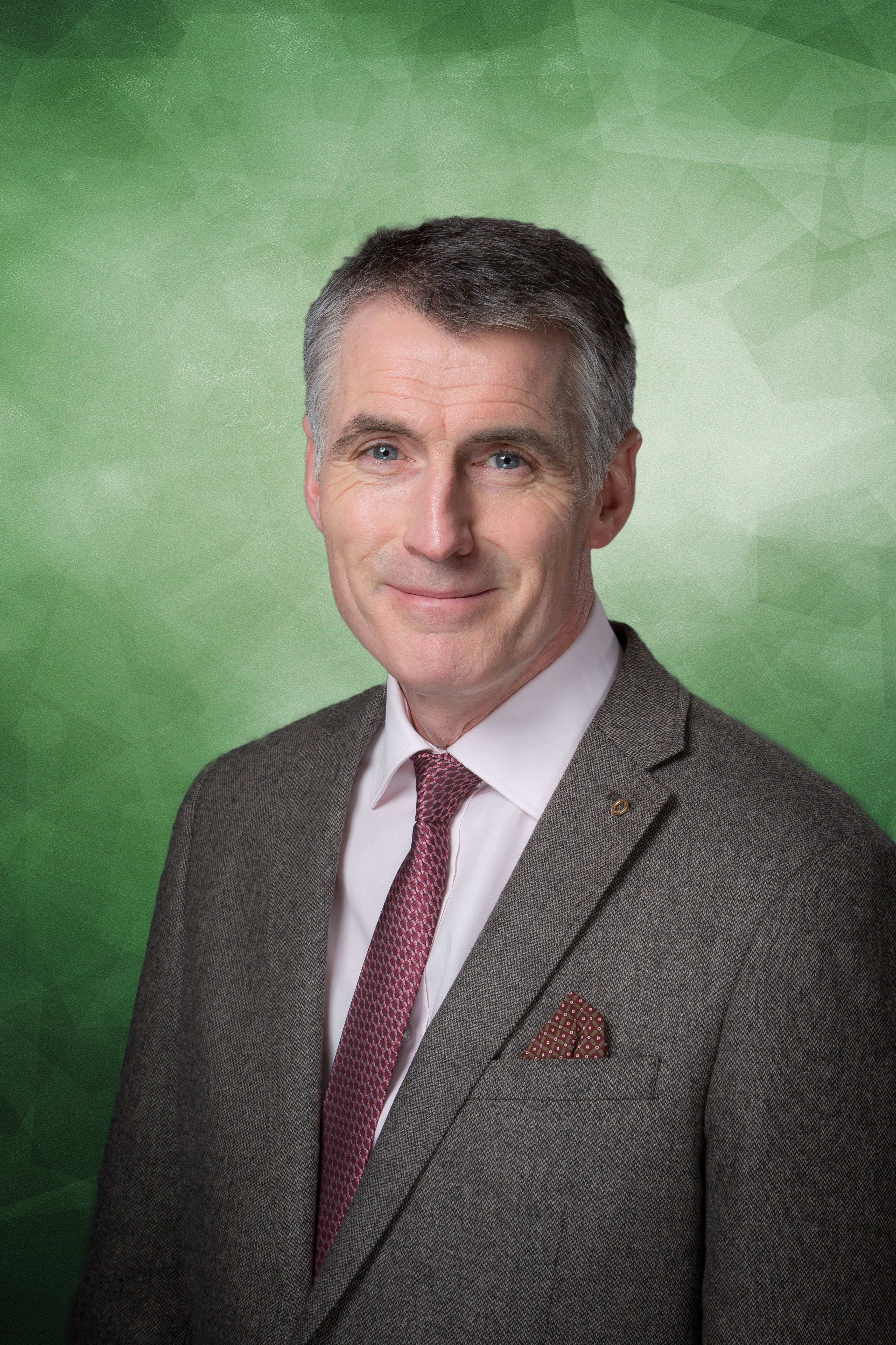 Declan Kearney in 2015